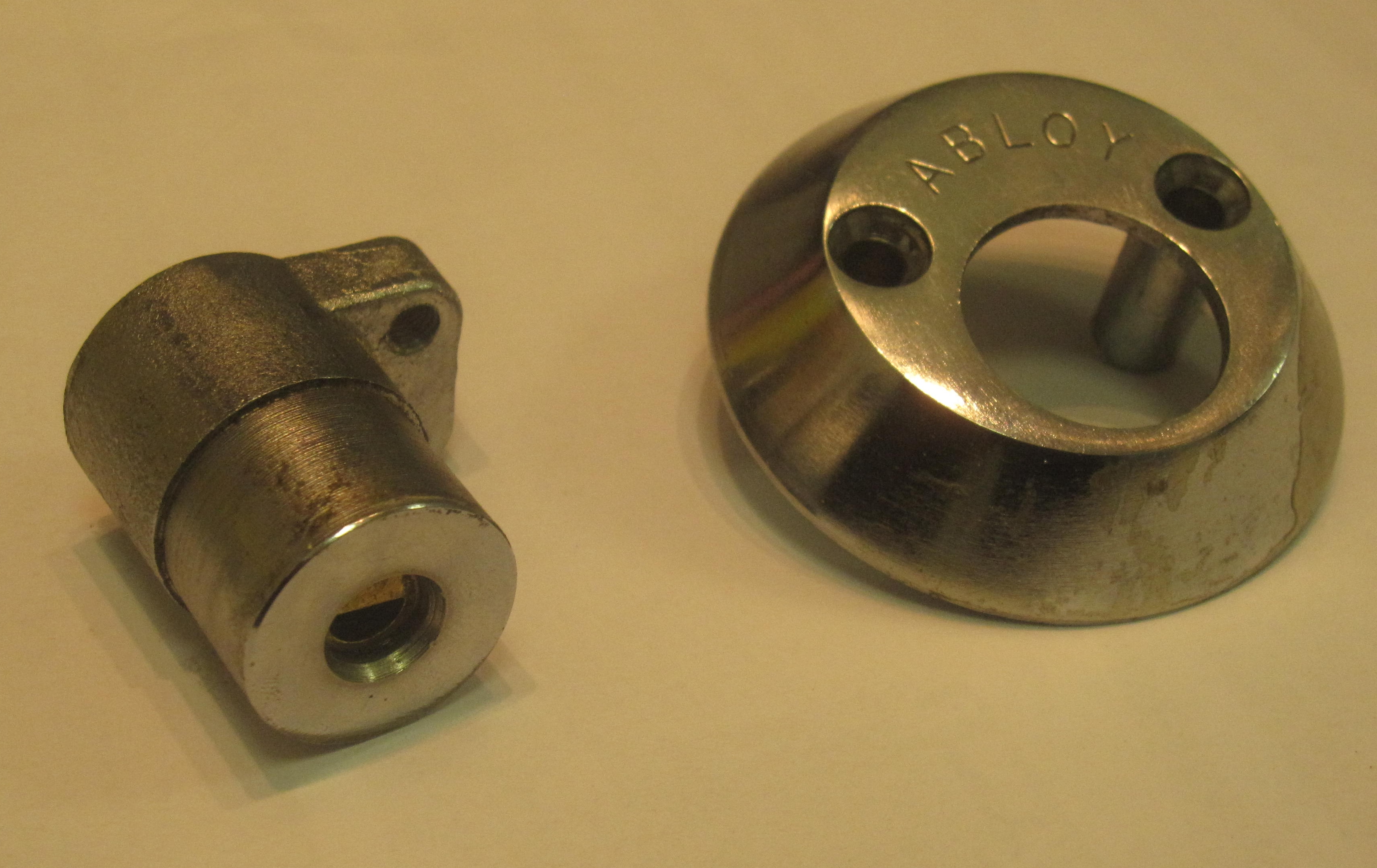 Cylinder of an old Abloy lock.